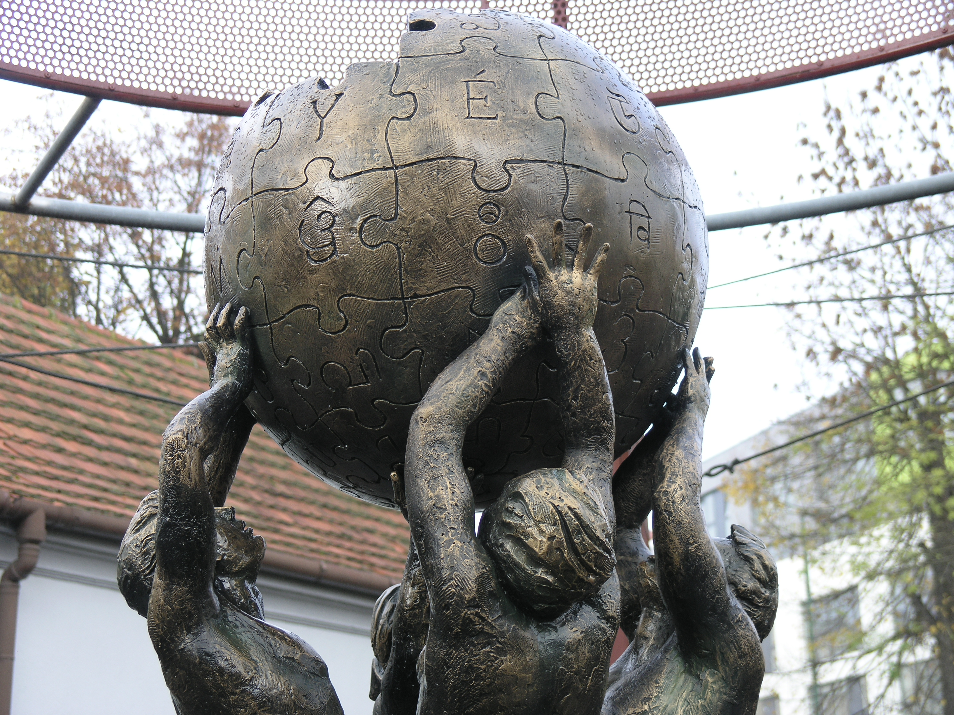 Wikipedia Monument in Słubice - detail.